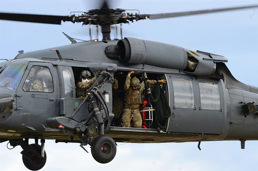 Pararescuemen assigned to Royal Air Force Lakenheath's 57th Rescue Squadron prepare to rappel from an HH-60G Pave Hawk during exercise Joint Warrior 15-1 in Scotland, April 22, 2015. The exercise tested the ability of armed forces from various countries to synchronize during worldwide operations. (U.S. Air Force photo/Senior Airman Erin O'Shea)